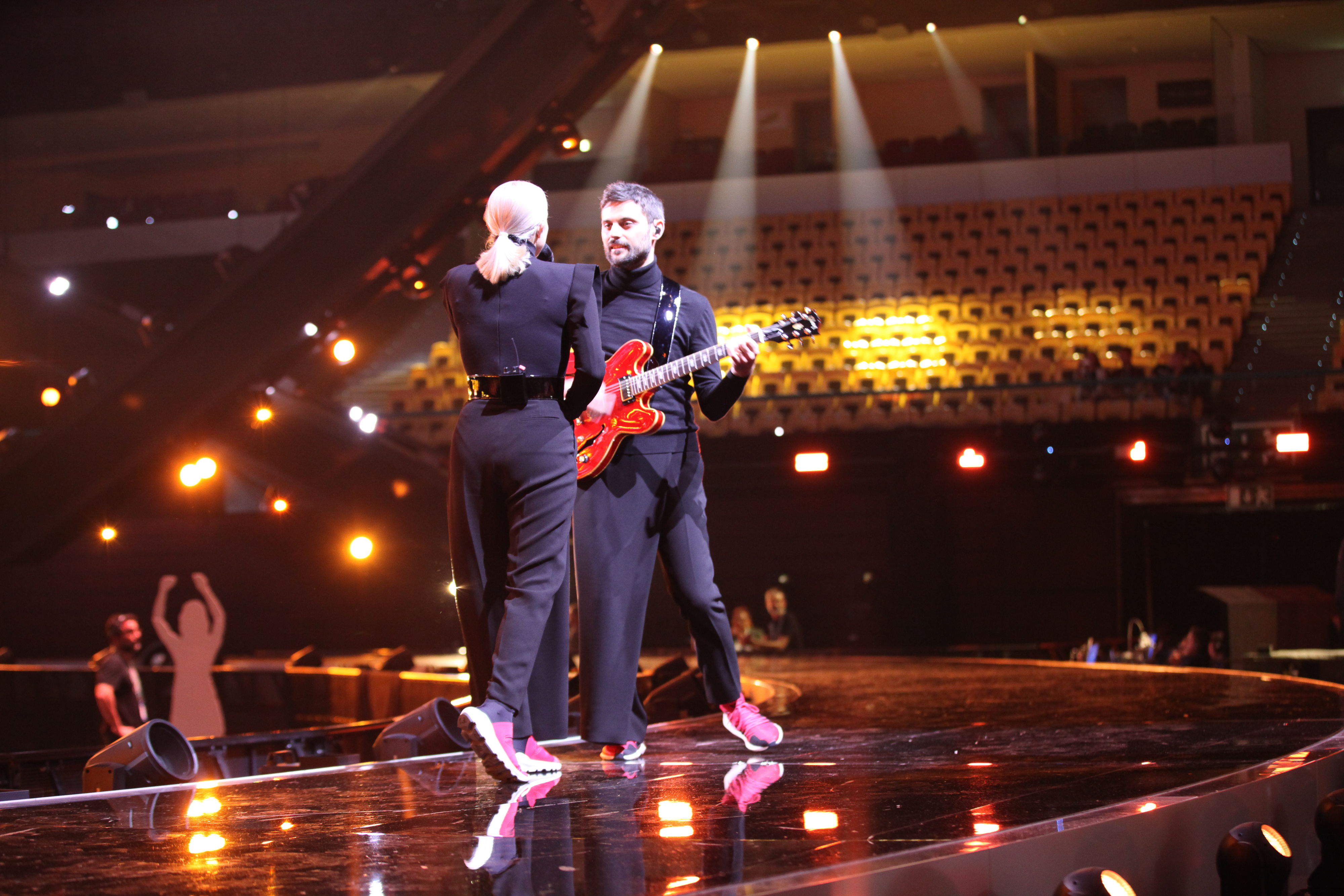 Madame Monsieur representing France with the song "Mercy" during a rehearsal before the grand final of the Eurovision Song Contest 2018 in Lisbon.